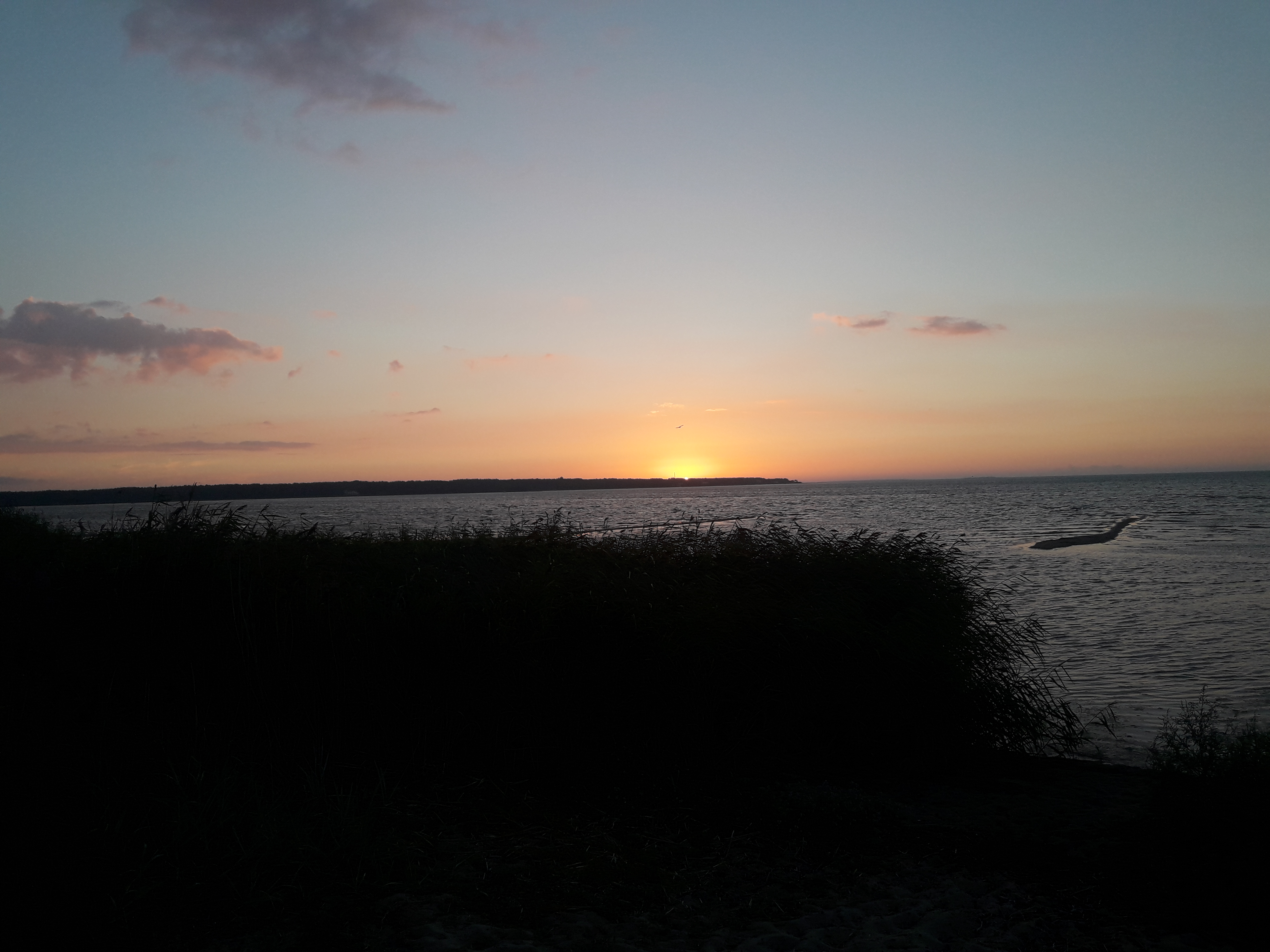 Sunset over Ihasalu